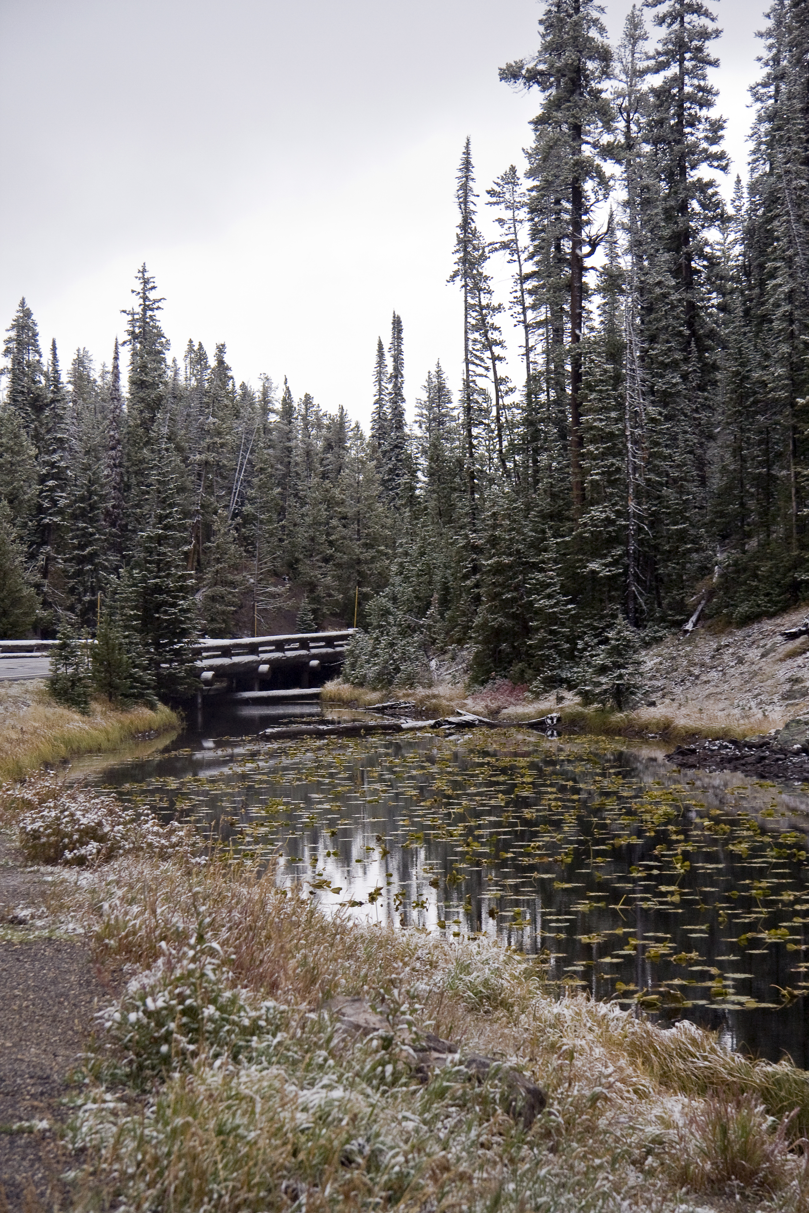 Isa Lake in Yellowstone National Park, looking west to the Atlantic/Madison River drainage (the expected drainage pattern is reversed)